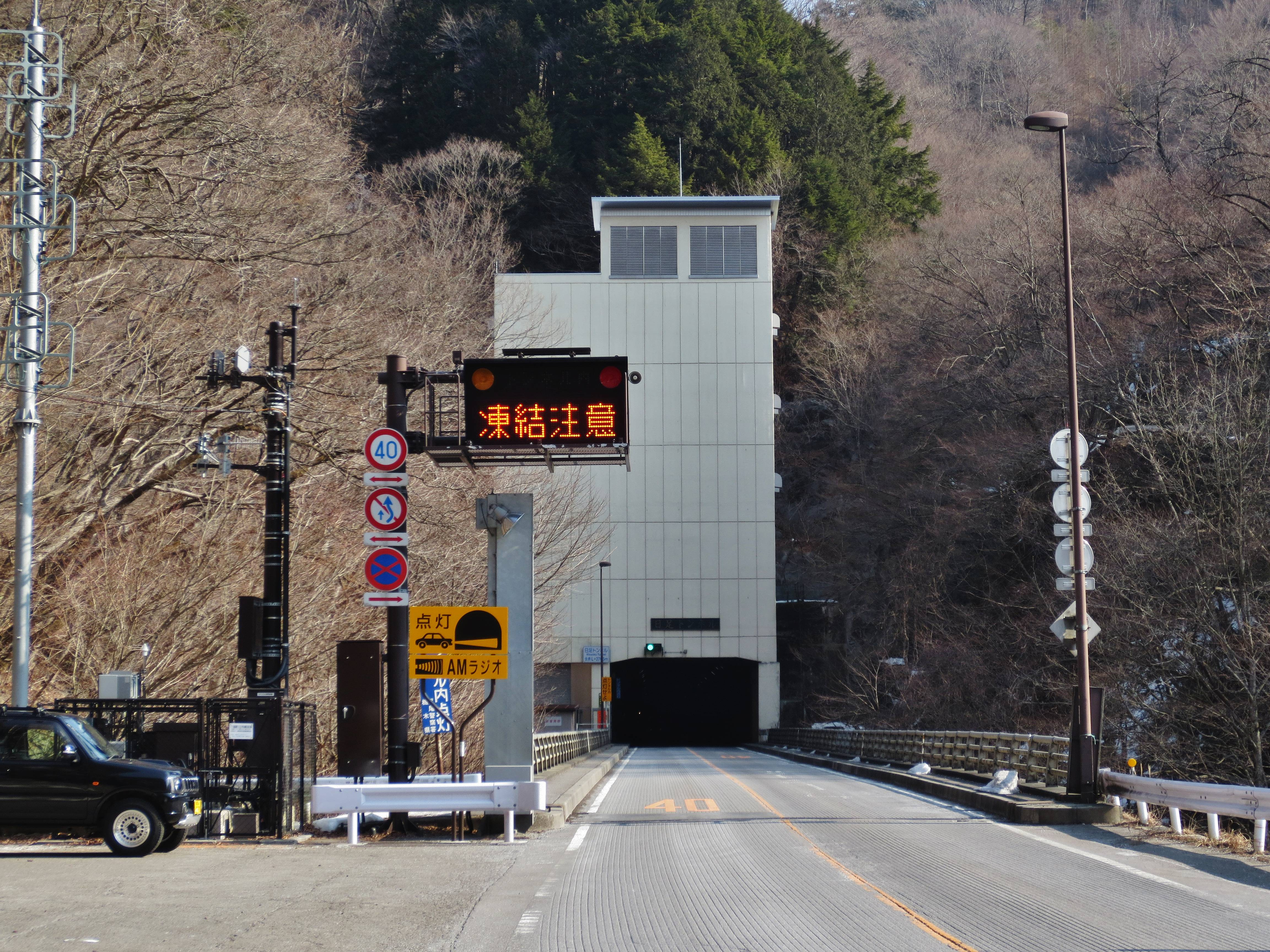 Nissoku Tunnel.